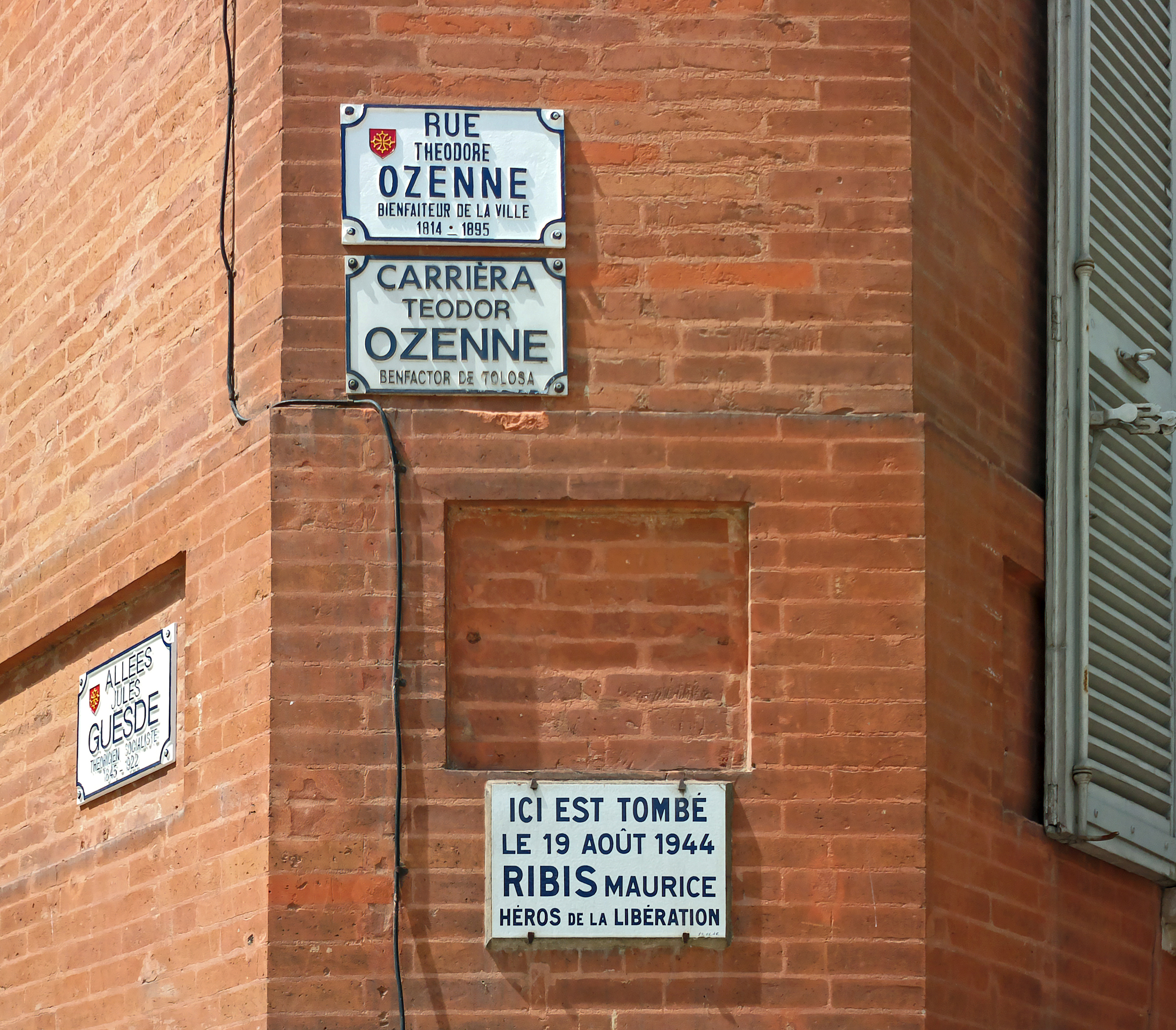 Street name sign in Toulouse. They have the particularity of being: in French and Occitan. La Rue Ozenne. Below, the plaque commemorating the death of Maurice Ribis heroes of the liberation of Toulouse August 19, 1944.